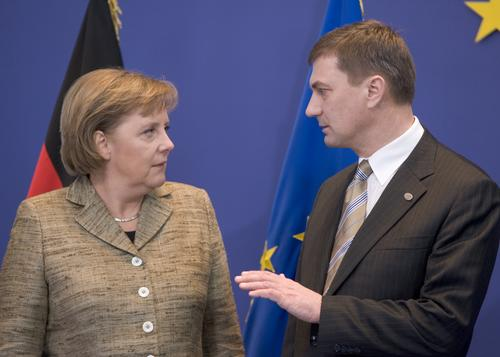 German Chancellor Angela Merkel and Estonian Prime Minister Andrus Ansip at the European Council meeting in Brussels, March 2007.